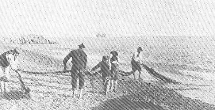 Angling in Italy Hauling the Seine in Mentone Subject: Fishing nets, Seining Tag: Traditional Fisheries